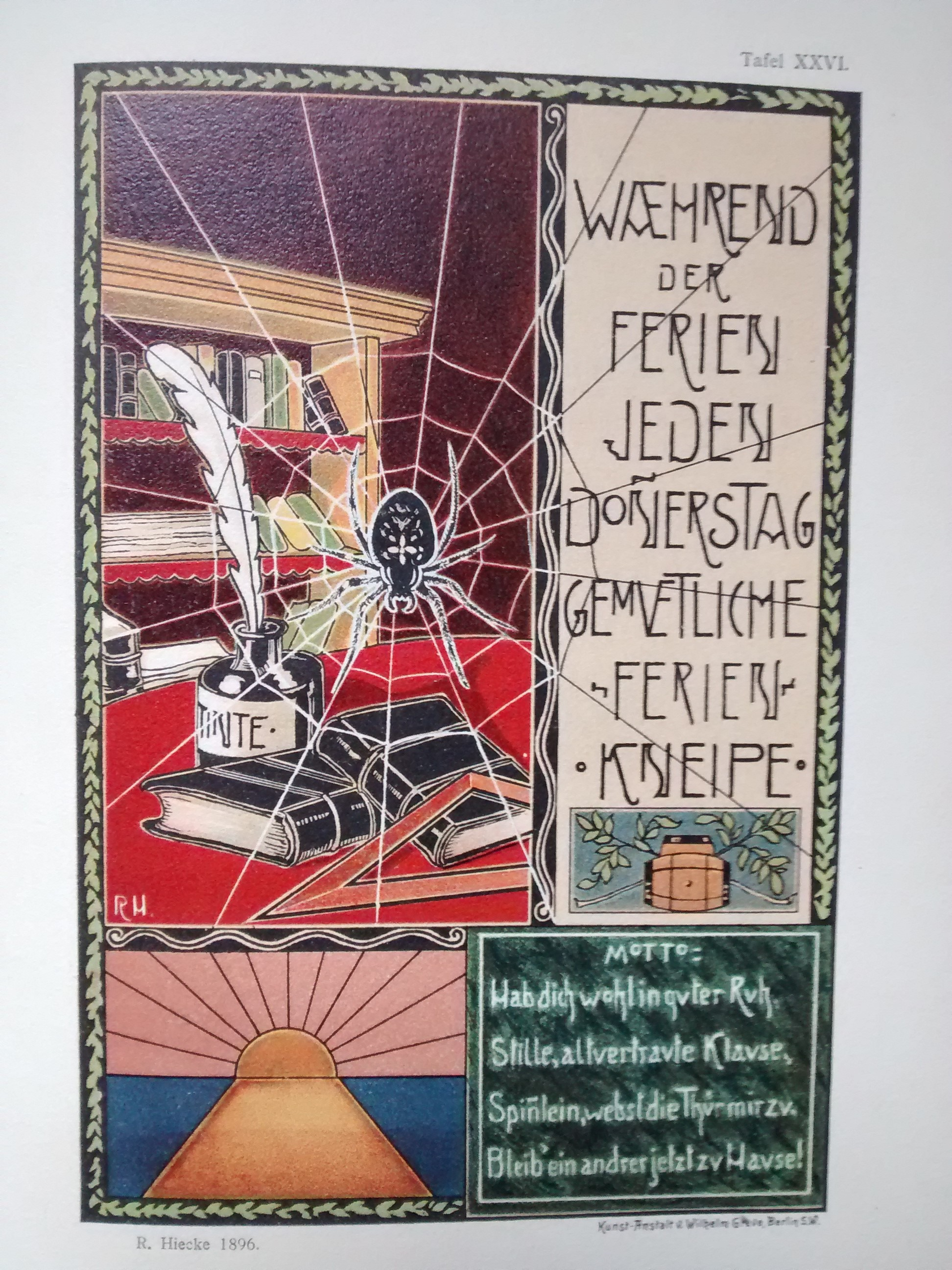 German fraternity Motiv, Meeting invitation